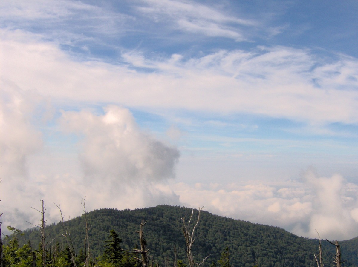 Andrews Bald (el. 5,920 feet/1,804 meters) amidst a cloudlake in the Great Smoky Mountains, looking south from the Forney Ridge Parking Lot near the summit of Clingman's Dome.